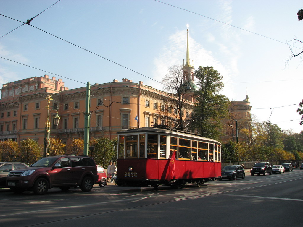 MSO-IV tram at Sadovaya street near Mikhailovsky castle in Saint Petersburg